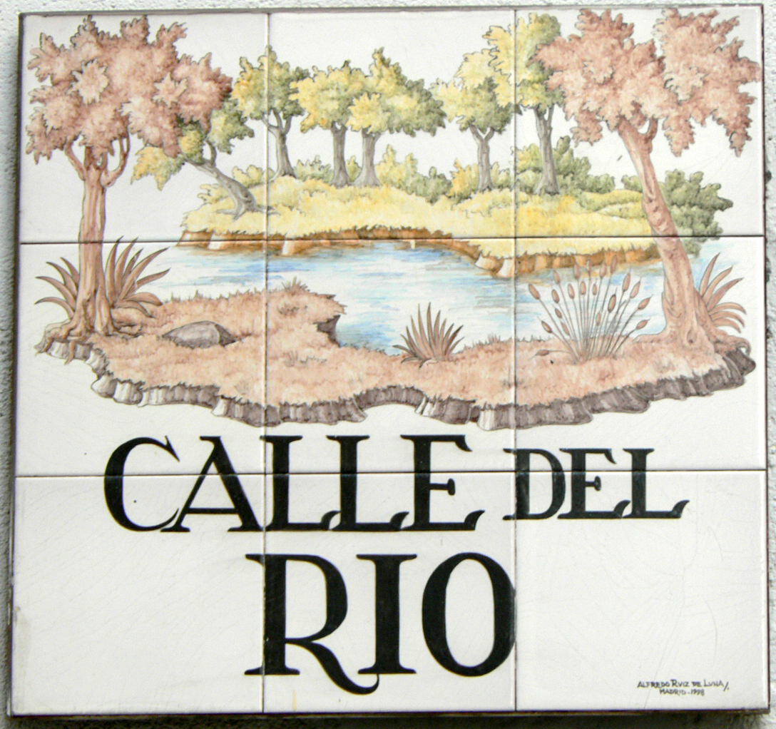 Sign of Calle del Río (street, Centro district) in Madrid (Spain).